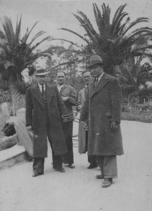 Georgi Kayafov, Menelay Gelev and others